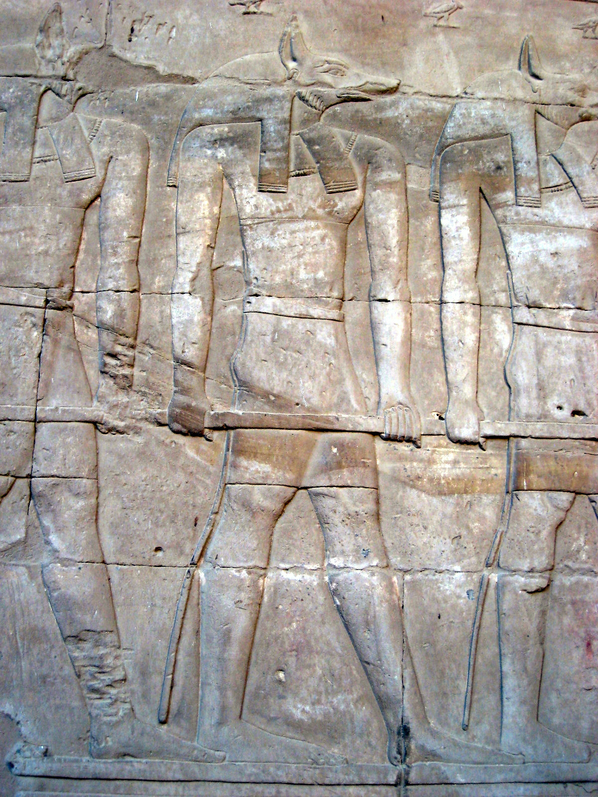 Souls of Pe and Nekhen. IMG_7096